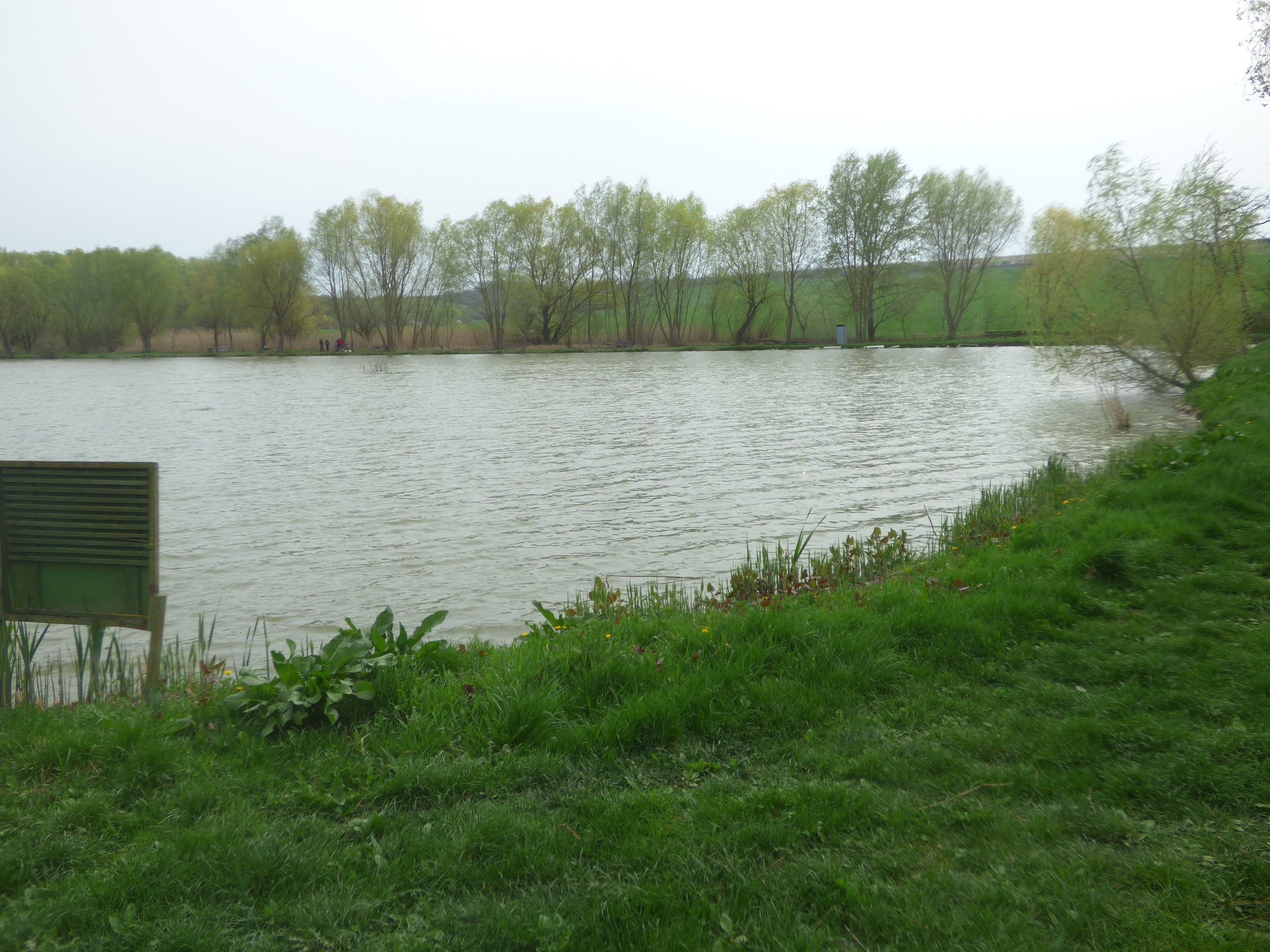 Az Anyácsai-tó és gátja északnyugat felől